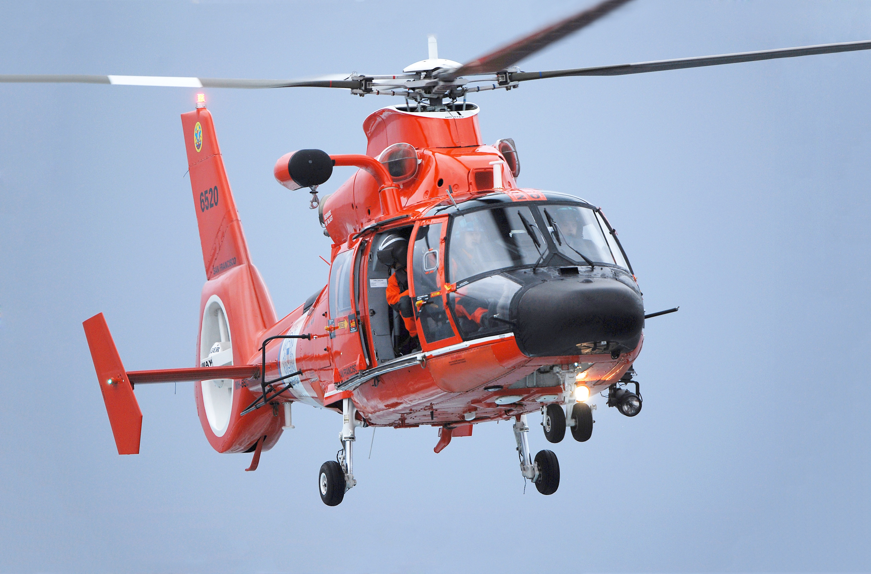 081214-N-4856N-071 PACIFIC OCEAN (Dec. 14, 2008) A Coast Guard MH-65 Dolphin helicopter arrives to evacuate a merchant sailor who was injured on the Liberian cargo ship "Marie Rickmers" from the aircraft carrier USS Abraham Lincoln (CVN 72). The Sailor was taken to Abraham Lincoln the previous night by a San Diego Coast Guard helicopter and medically stabilized before being flown to San Francisco for treatment. Abraham Lincoln is underway conducting training and carrier qualifications. (U.S. Navy photo by Mass Communication Specialist Seaman Colby Neal/Released).